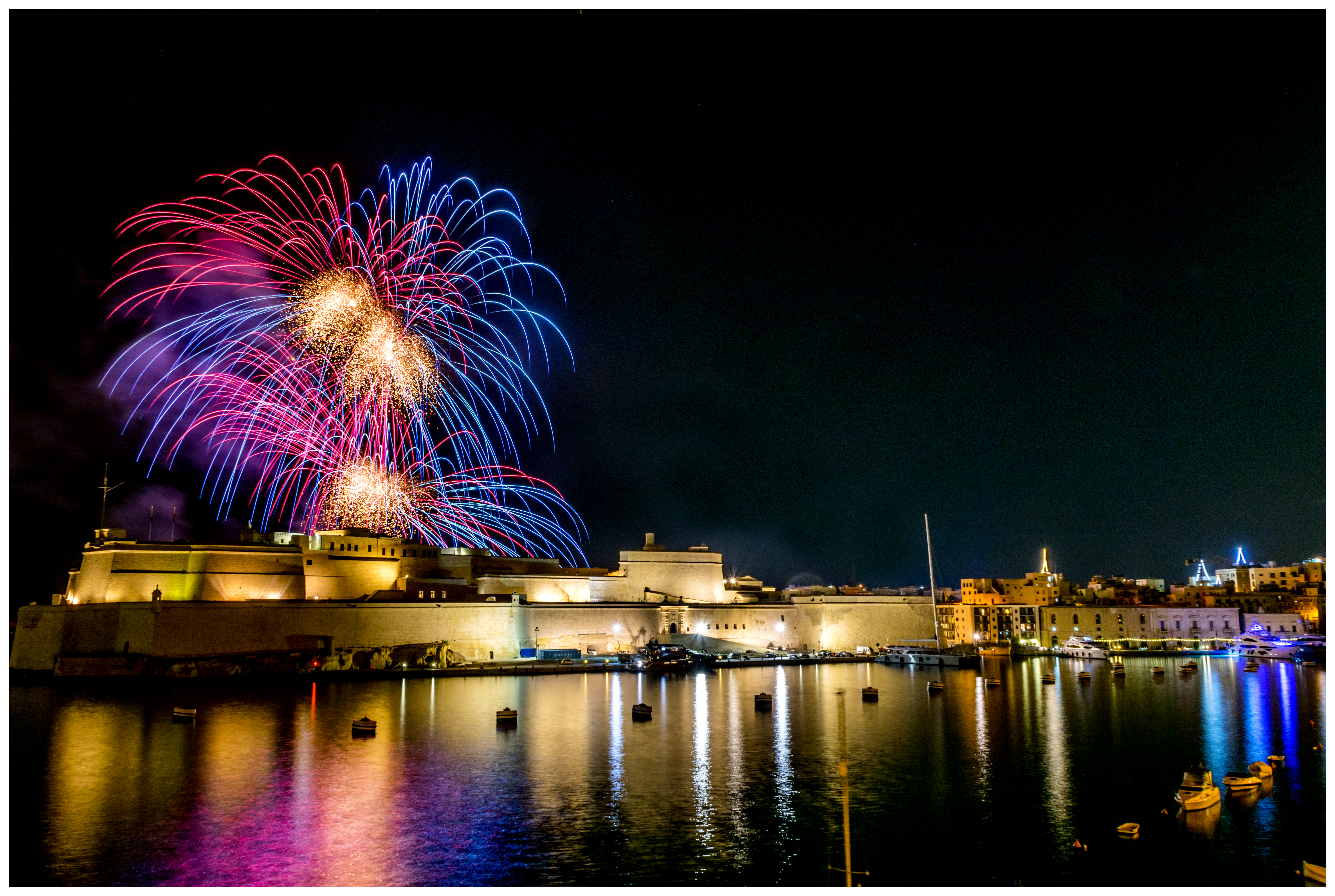 The picture shows fireworks over fort st. angelo in Birgu taken the night before the feast of st. Lawrence.